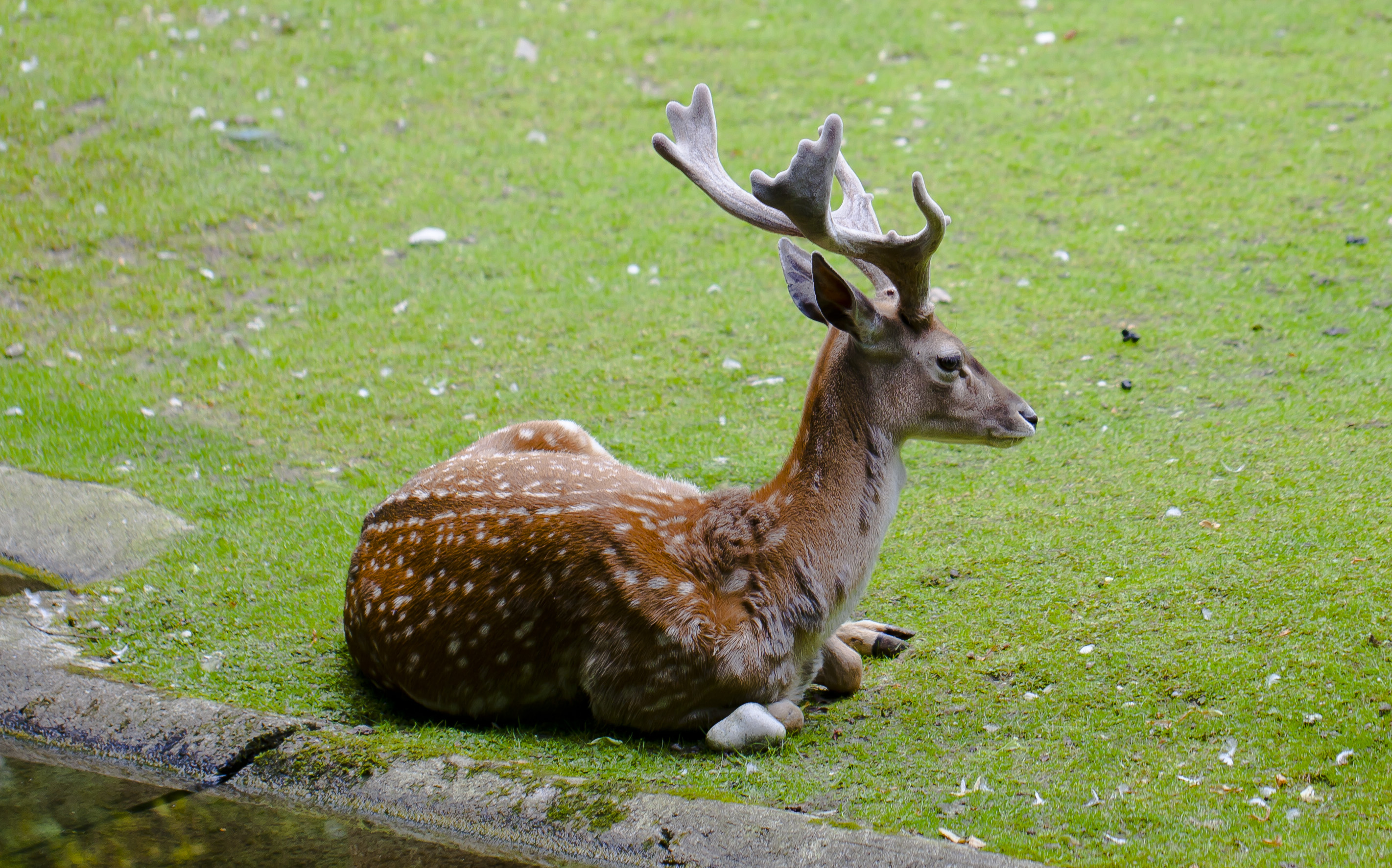 Persian fallow deer (Dama mesopotamica), Tierpark Hellabrunn, Munich, Germany